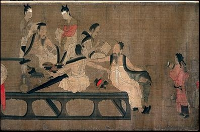 Northern Qi Scholars Collating Classic Texts. Ink and color and silk, handscroll (most likely a copy of a work by Yan Liben)